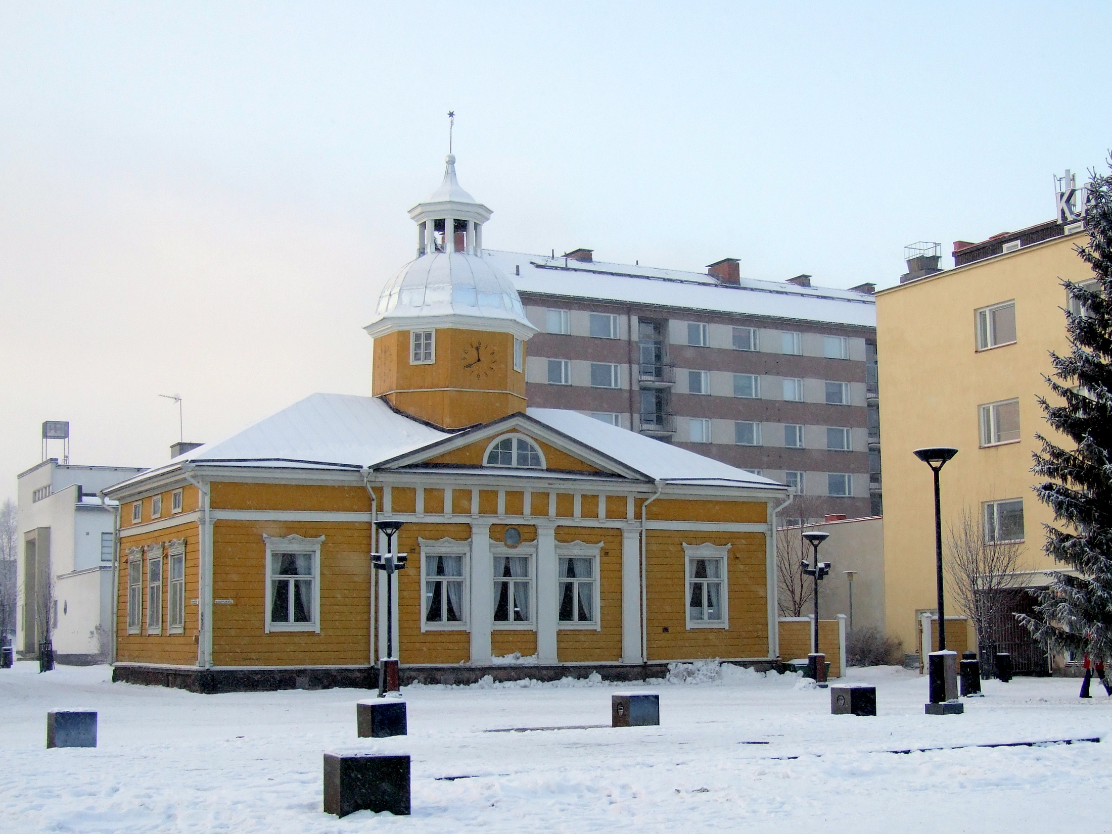 The old town hall of Kajaani. It was designed by architect Carl Ludvig Engel and built in 1831.